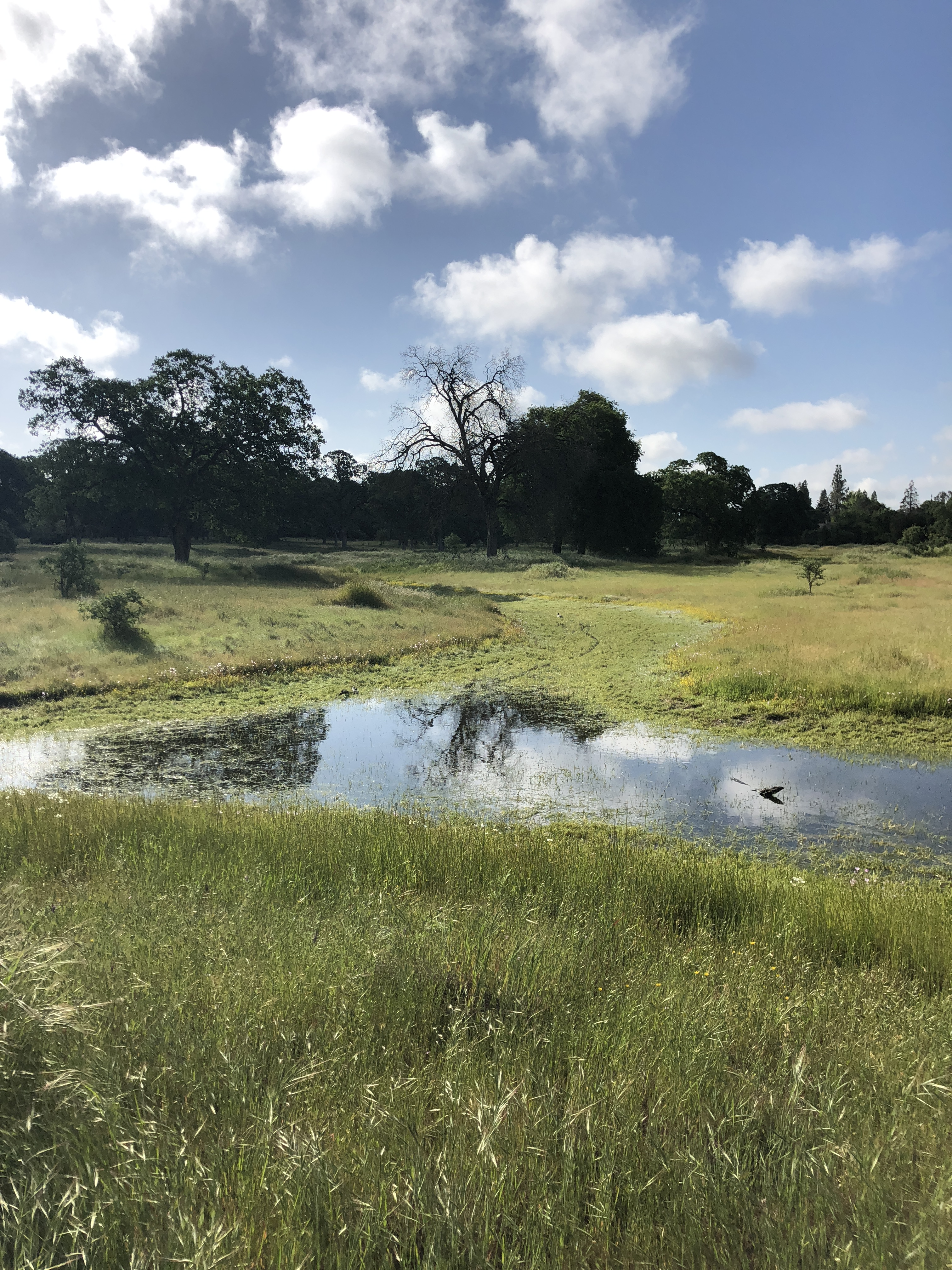 Phoenix Vernal Pool, Fair Oaks CA, April 2018